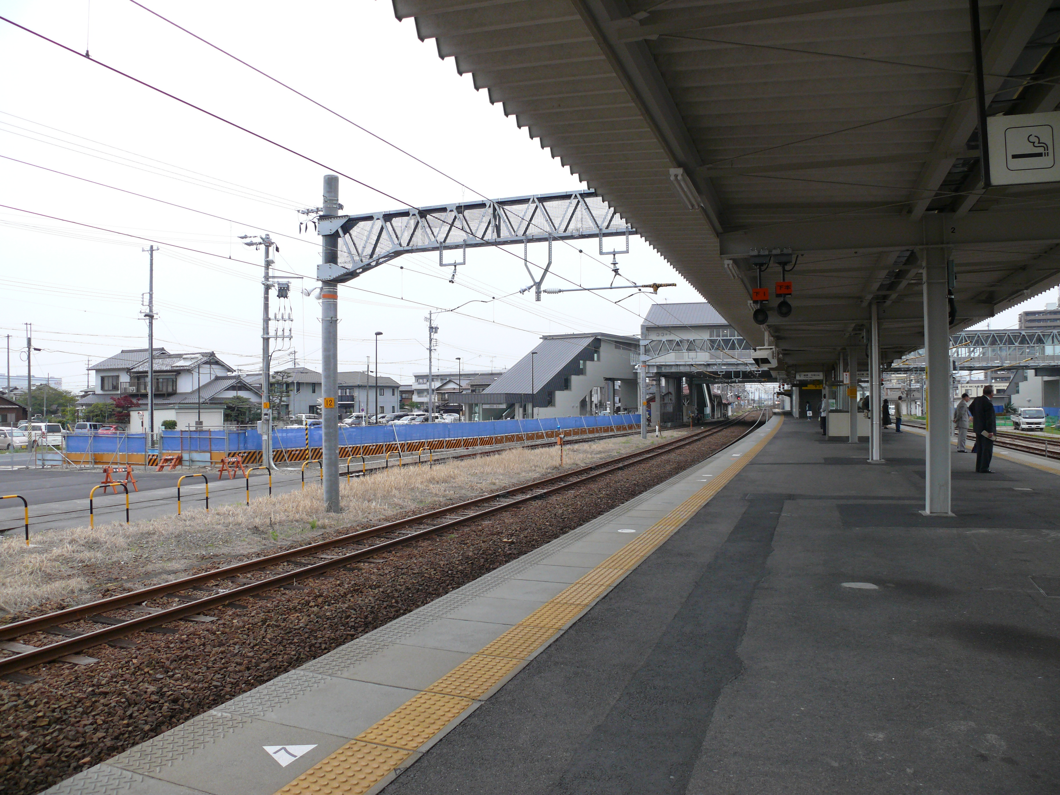 JR Central of Kisogawa Station.